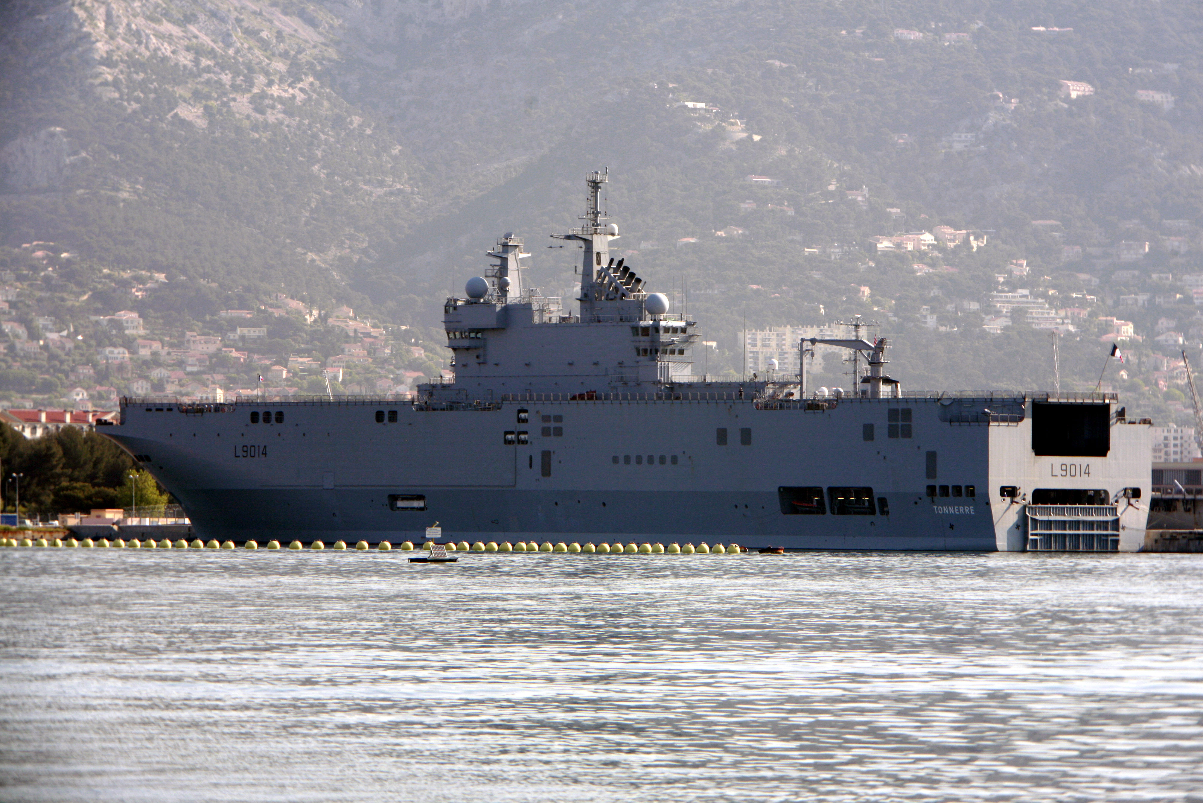 Command and Projection ship Tonnerre in Toulon harbour, preparing for the celebrations of the 8th of May 2009.